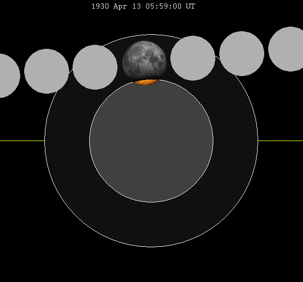 Lunar eclipse chart